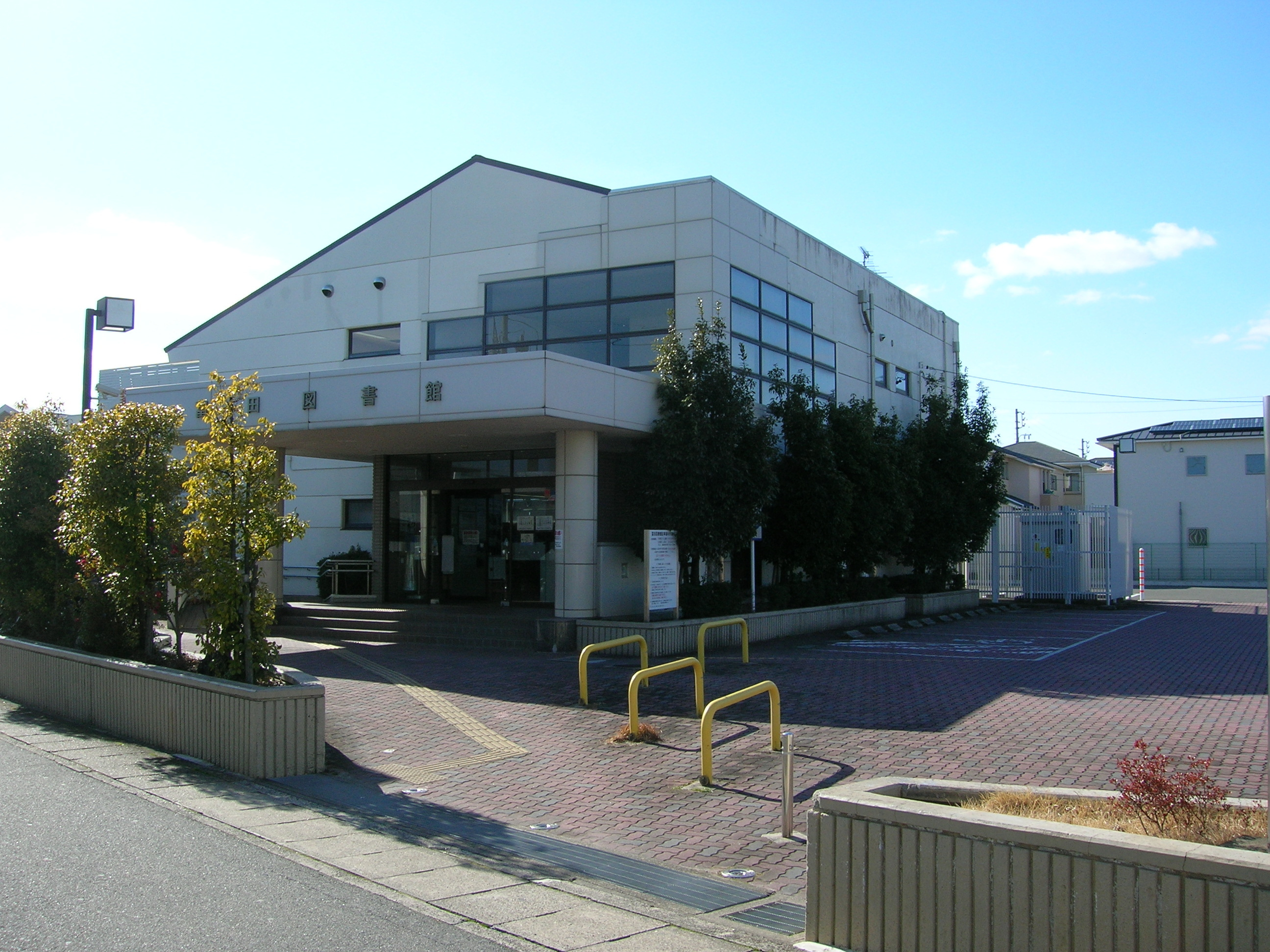 Nagoya City Tomita library. Loc: Nakagawa-ku, Nagoya city, Aichi Prefecture, Japan.